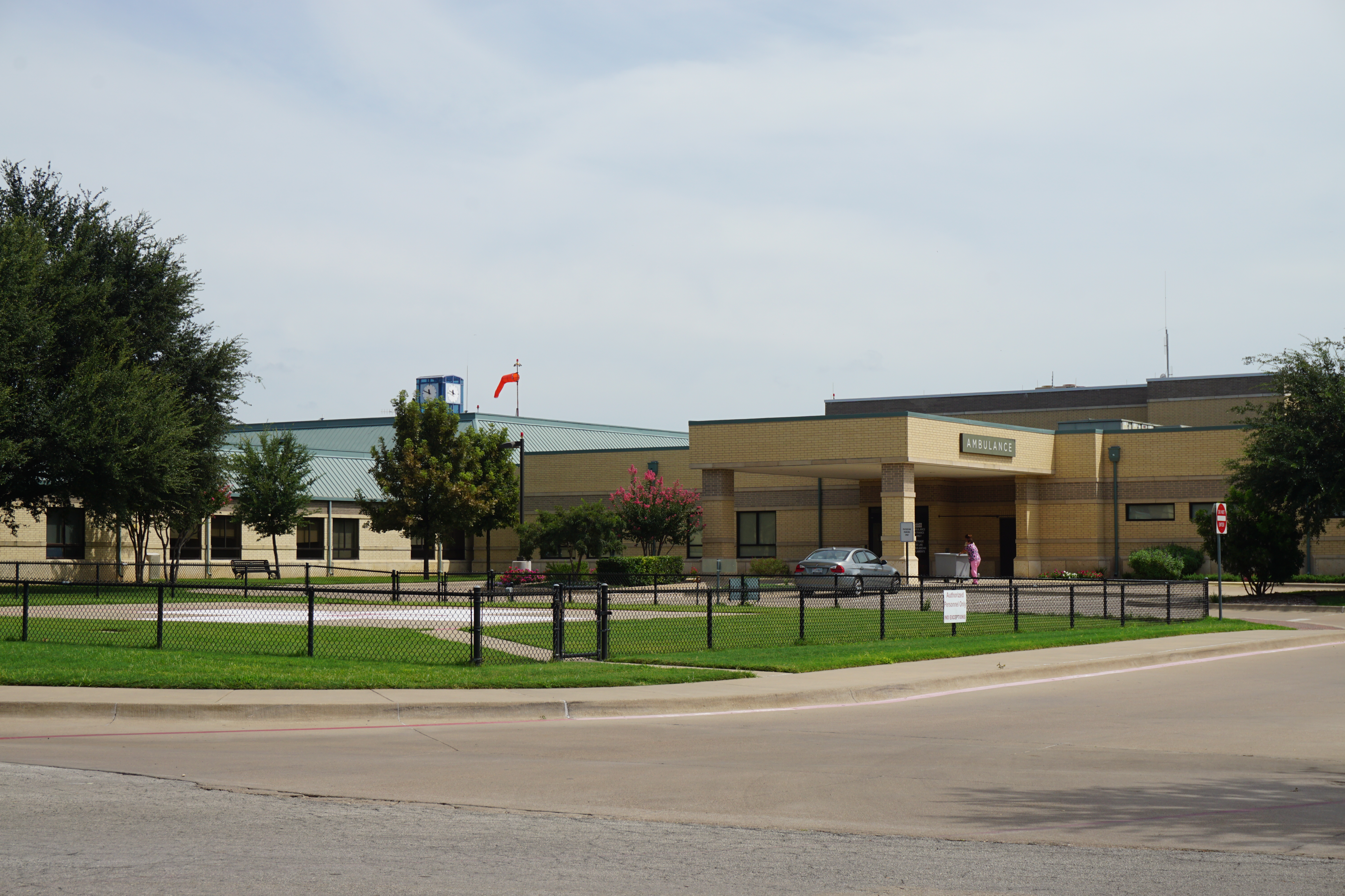 The Glen Rose Medical Center in Glen Rose, Texas (United States).